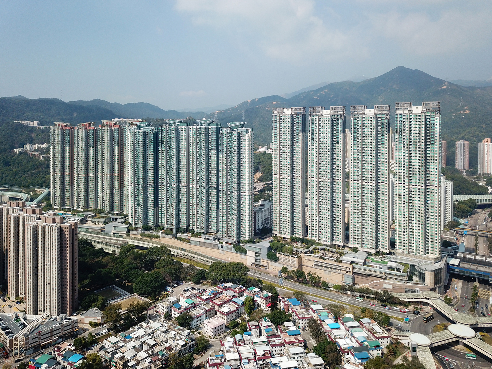 Festival City